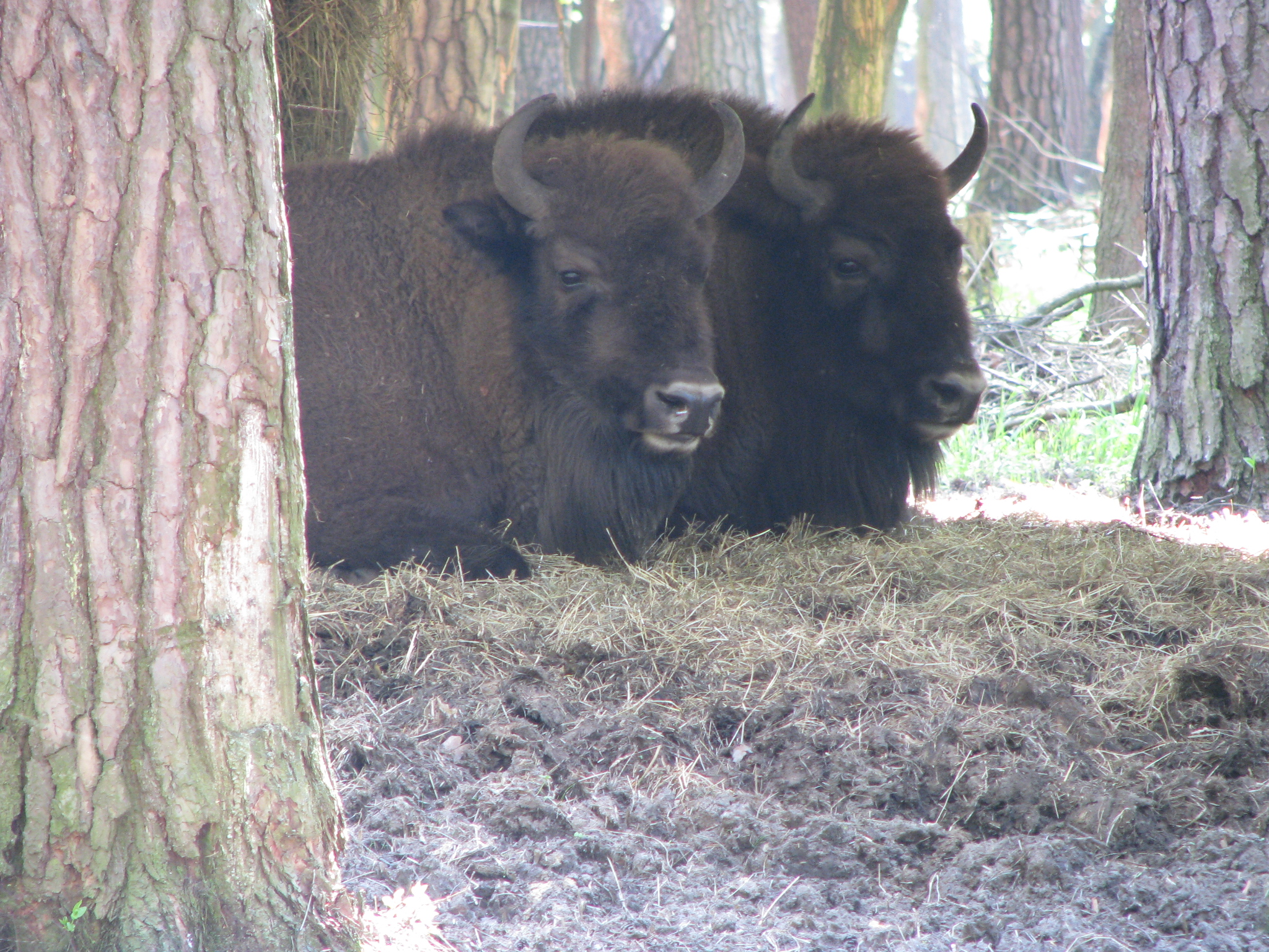 Wisent